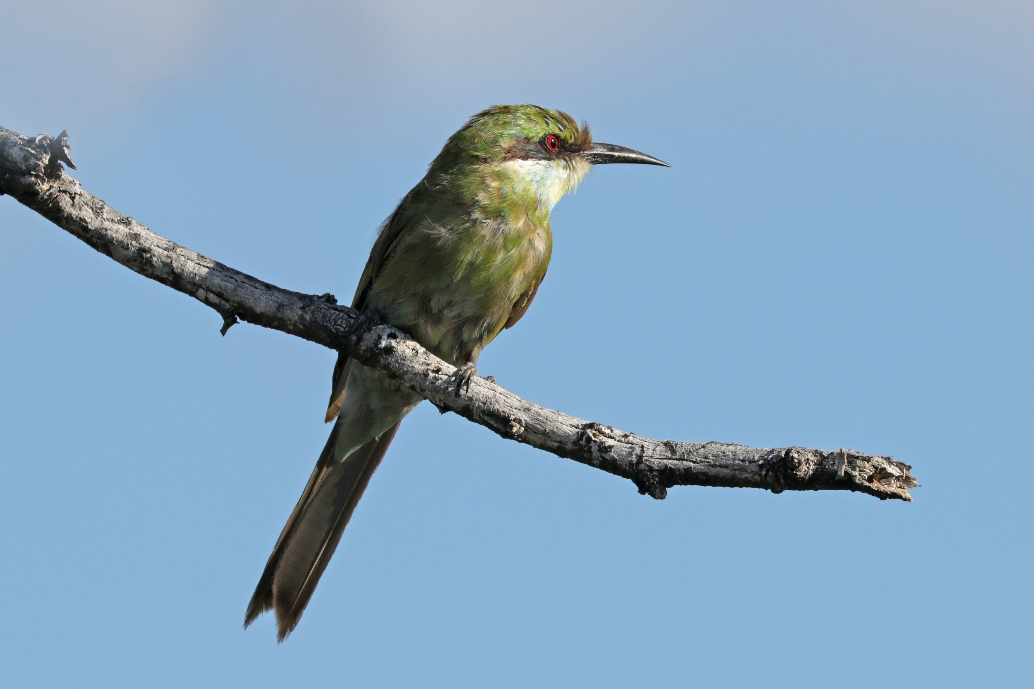 Swallow-tailed bee-eater (Merops hirundineus hirundineus) juvenile, Etosha National Park, Namibia